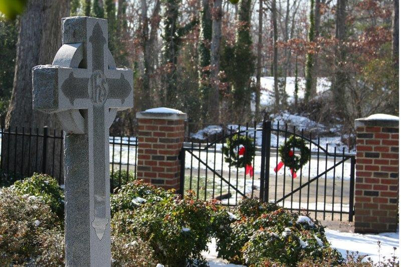 Celtic cross in Presbyterian memorial garden during Advent